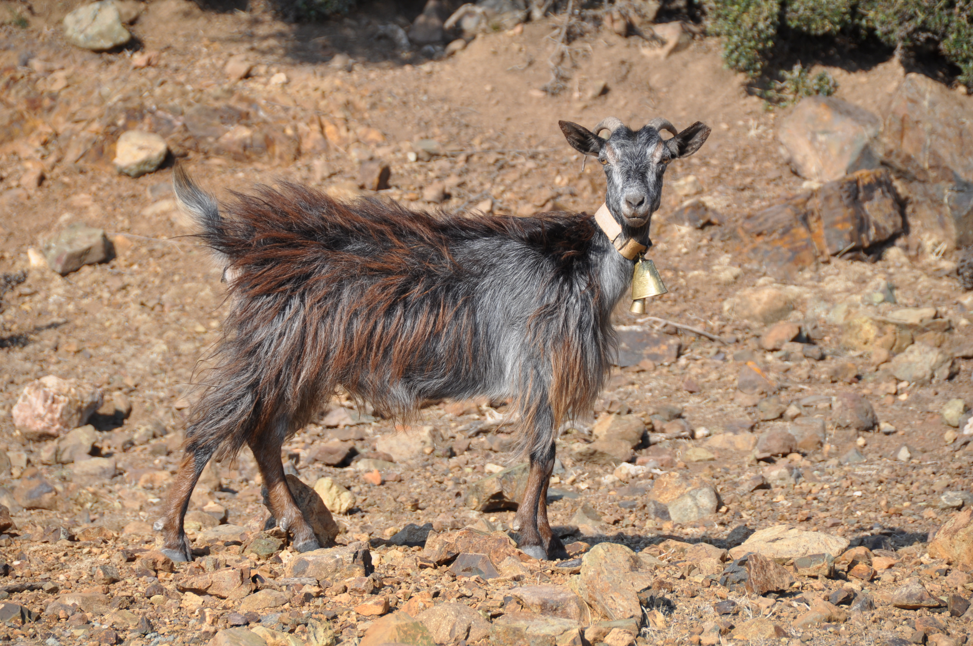 This is a photography of Natura 2000 protected area with ID GR1110004